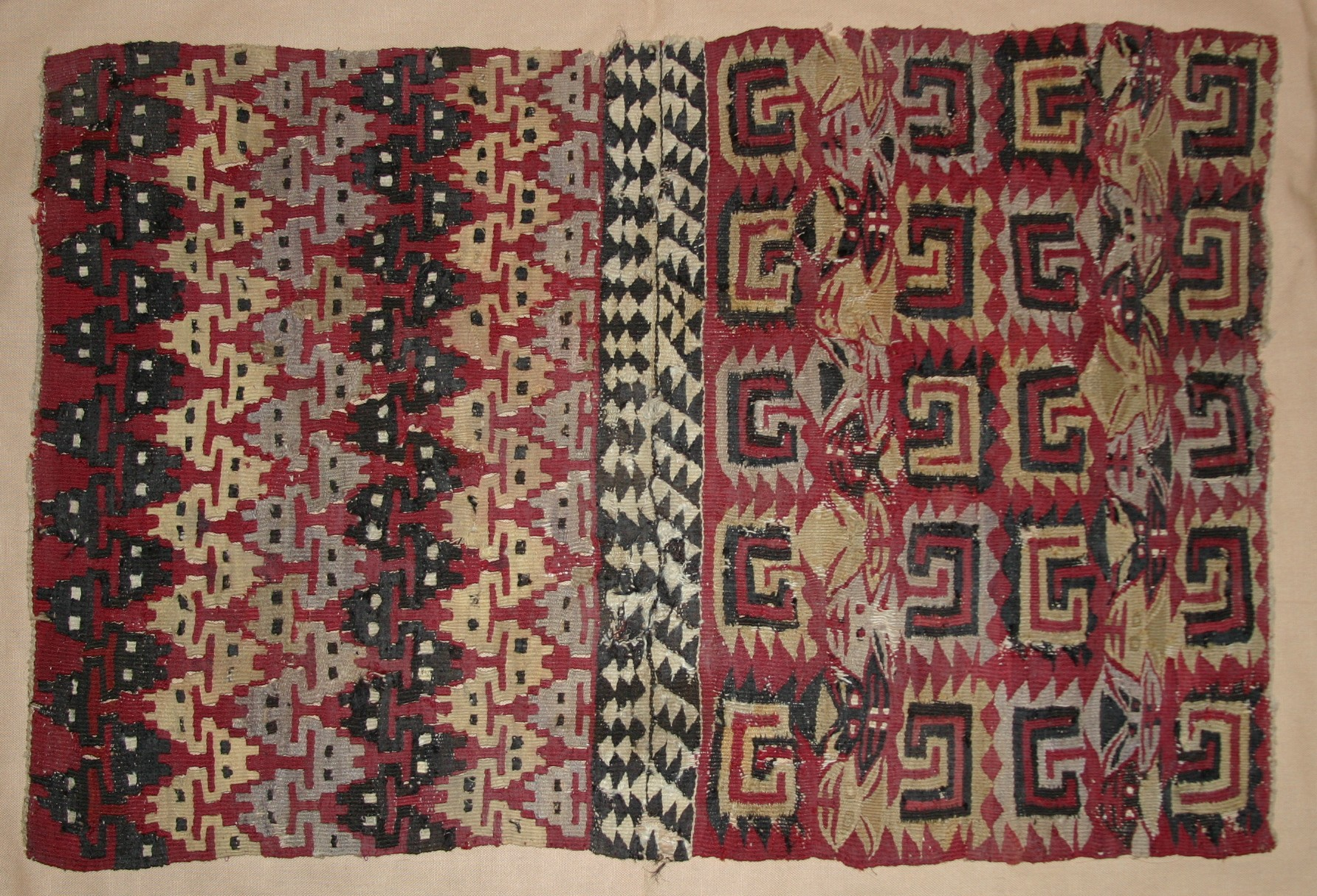 tapestry with crabs, Inca 1400-1450 A.D.